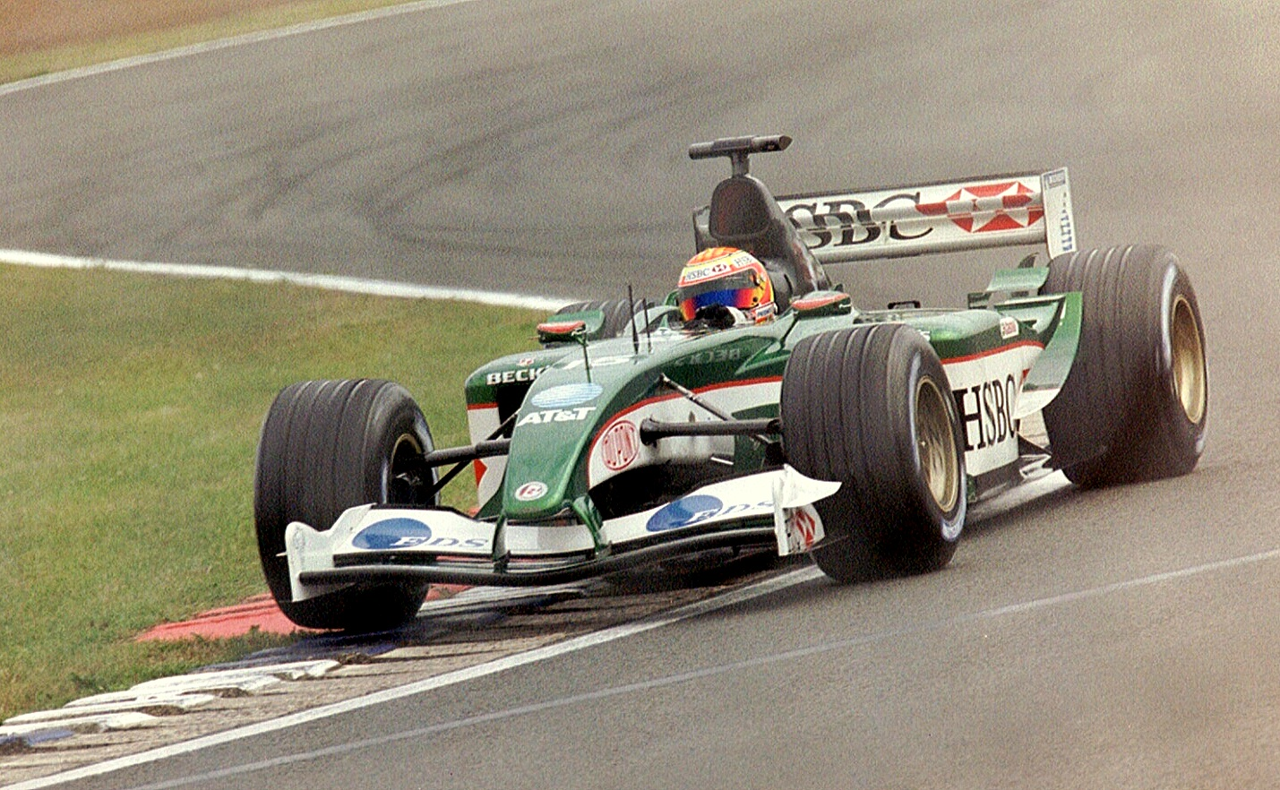 Antônio Pizzonia, driving his Jaguar Cosworth at the 2003 British Grand Prix.